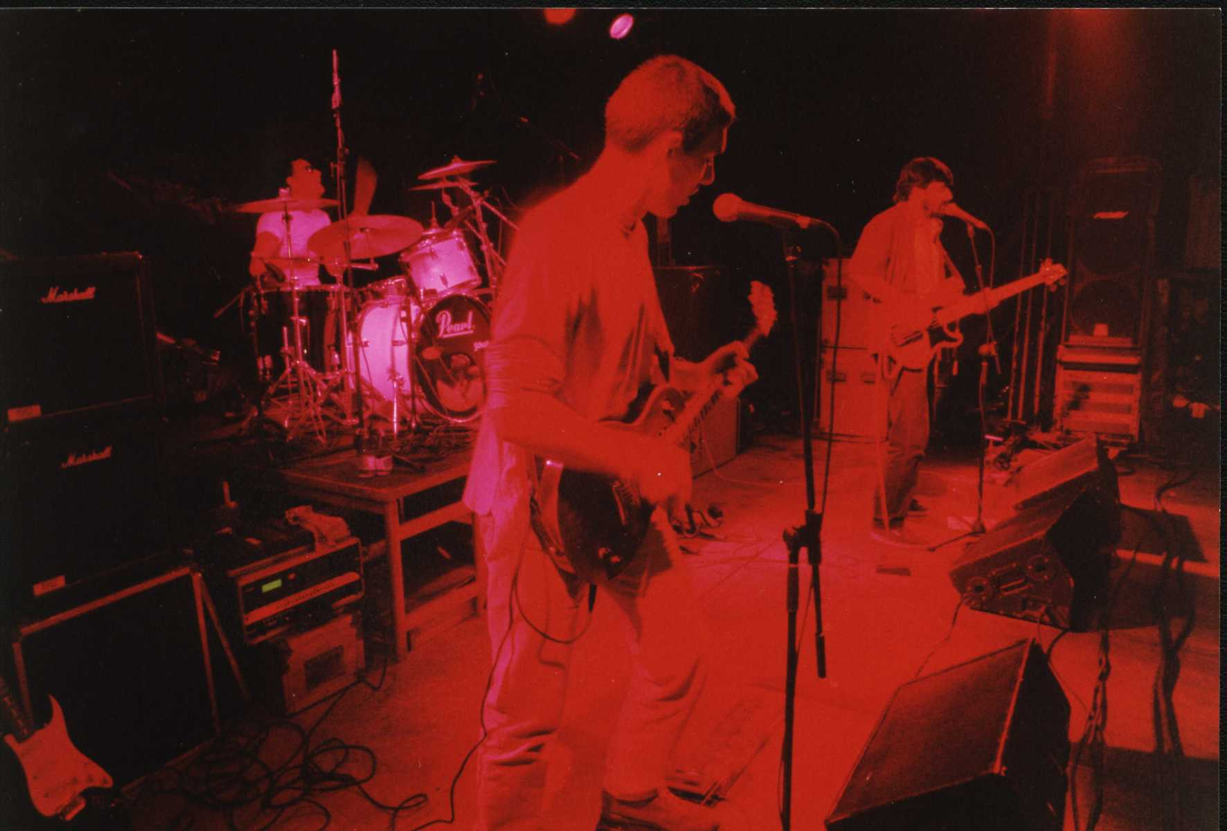 Actuación en directo